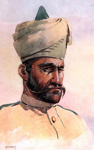 Sepoy 40th Pathans (now 16th Battalion The Punjab Regiment, Pakistan Army). Watercolour by Major Alfred Crowdy Lovett, 1910. Published in MacMunn & Lovett, Armies of India, 1911.